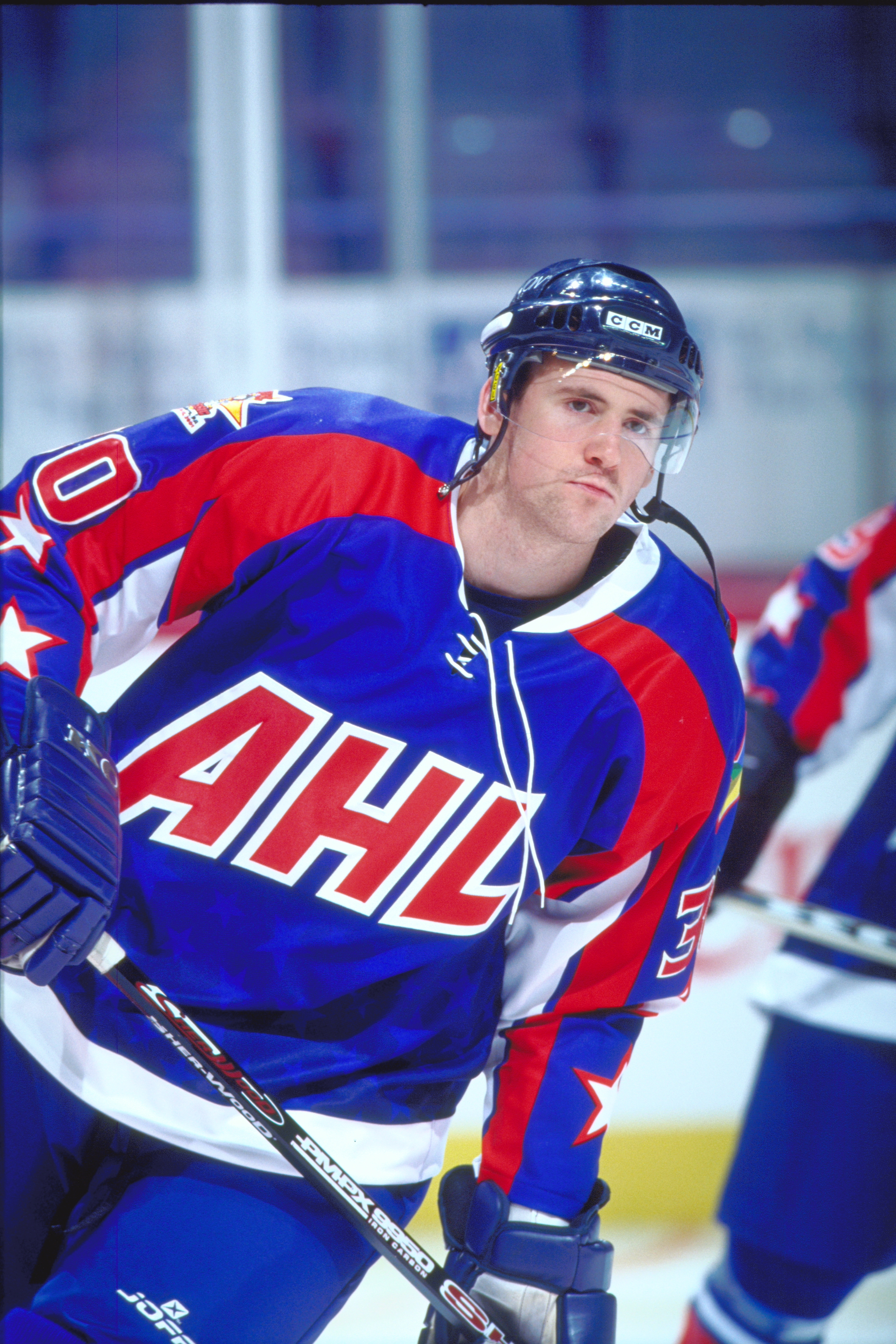 hhof0338